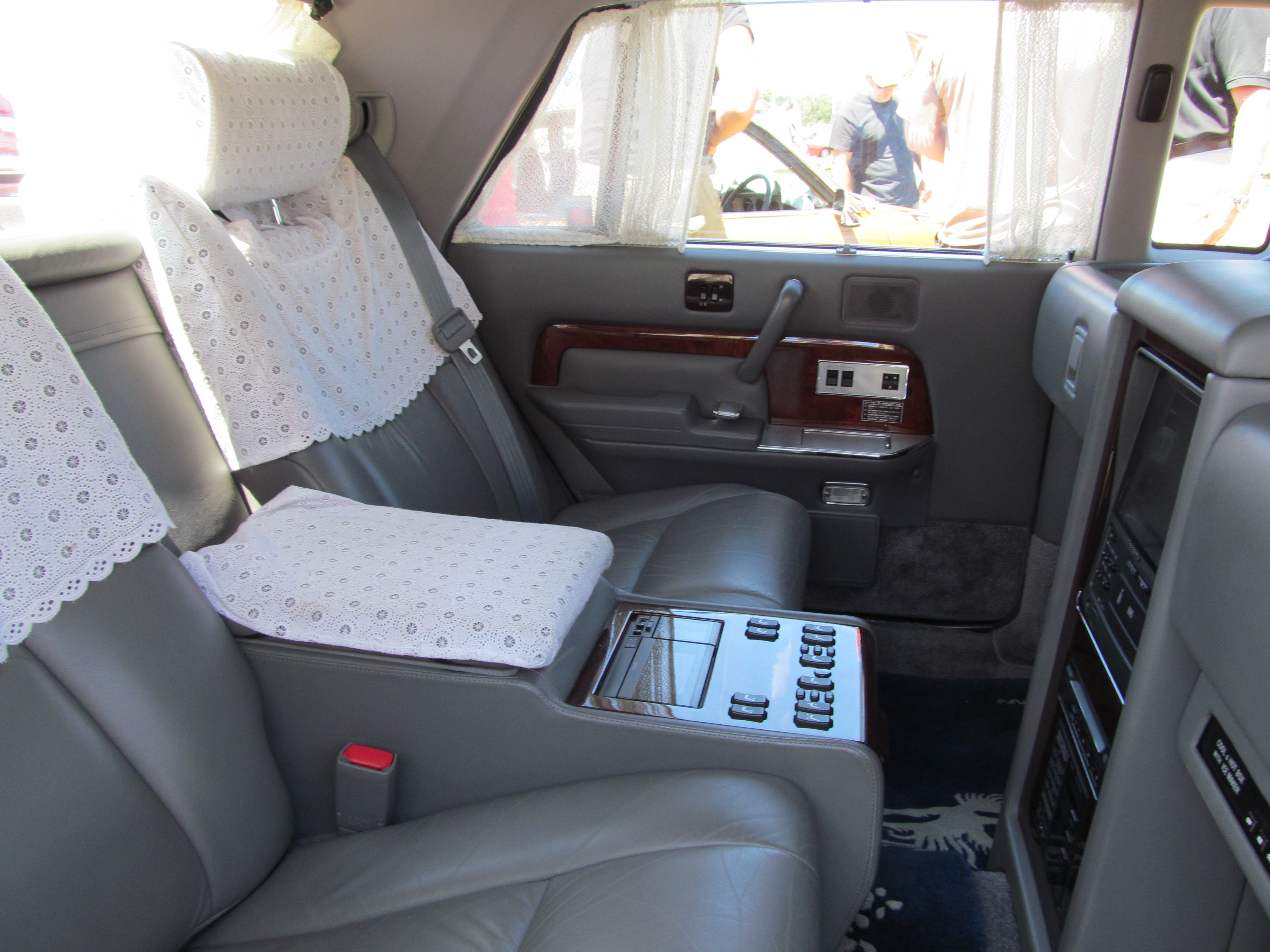 Here we have the lavishly equipped interior of a Toyota Century. The Century is Toyota's flagship model and looks largely the same today as it did when the model went into production in the 1960s.